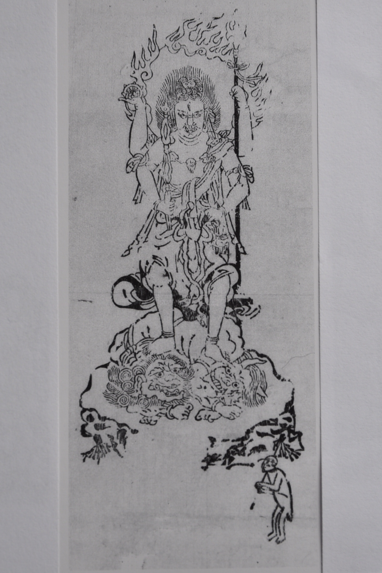 Buddhist woodcut print, showing Fudô, a Buddhist deity, amidst the flames (around 1590)